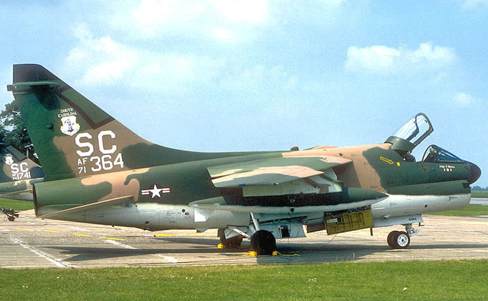 157th Tactical Fighter Squadron A-7D-11-CV Corsair II 71-0364 1972: Aircraft delivered to 23d Tactical Fighter Wing, England AFB, LA (c/n D-275) Transferred to 157th Tactical Fighter Squadron, SC Air National Guard, 1975 Transferred to 149th Tactical Fighter Squadron, VA Air National Guard, 1983 Transferred to 162d Tactical Fighter Squadron, OH Air National Guard, 1992 Transferred to AMARC August 1992; moved to Eglin AFB FL as range target